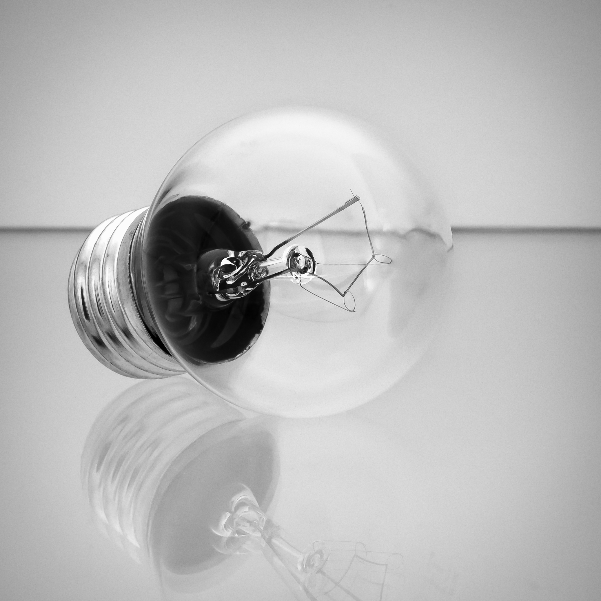 Small variant of incandescent light bulb with standard screw (E27); input power: 40W; produced for: TESCO; photo from: 2011-04-09